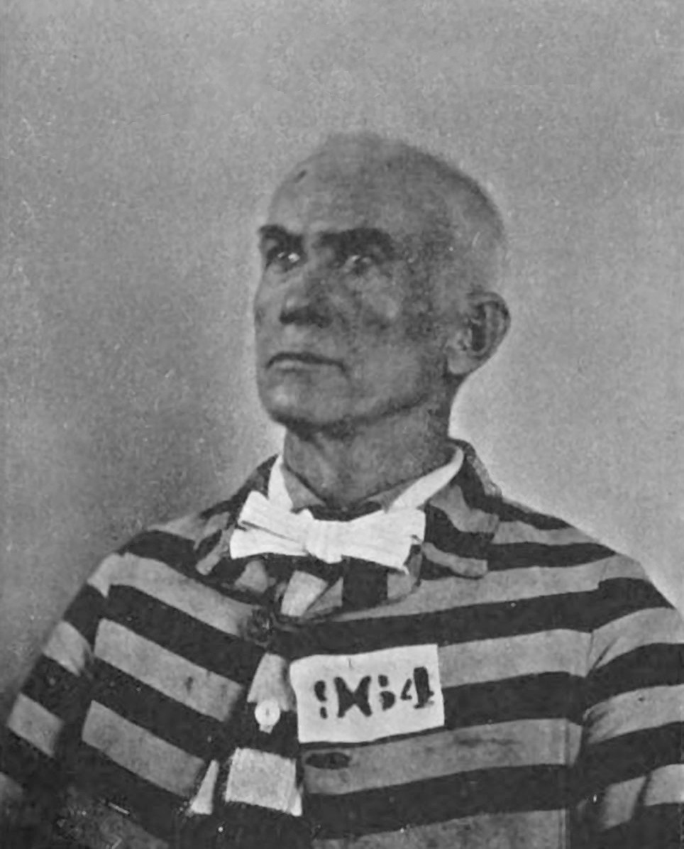 James Addison Reavis with imprisoned at Santa Fe, New Mexico Territory